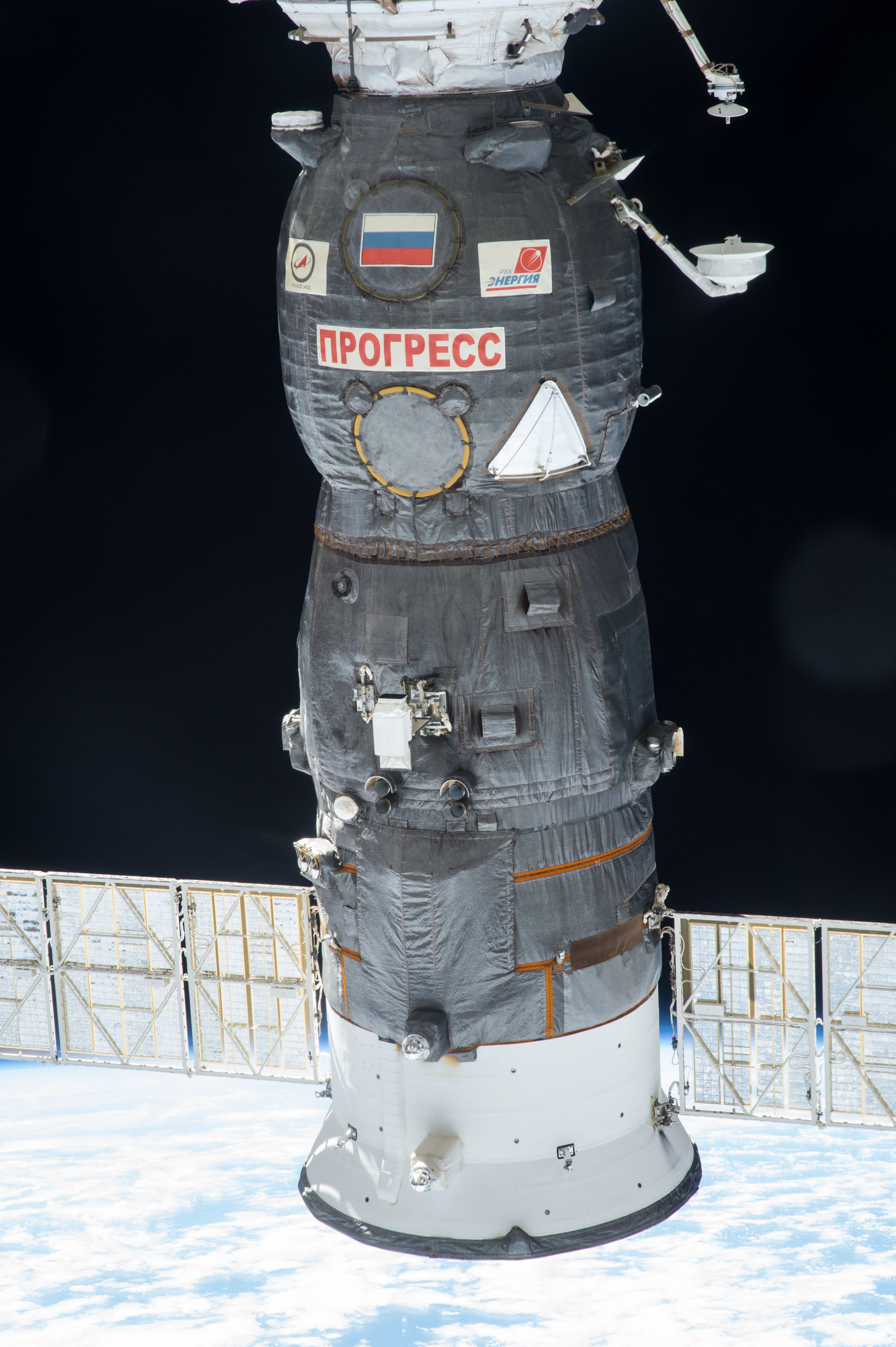 Progress MS-01 docked to ISS's Pirs nadir port.